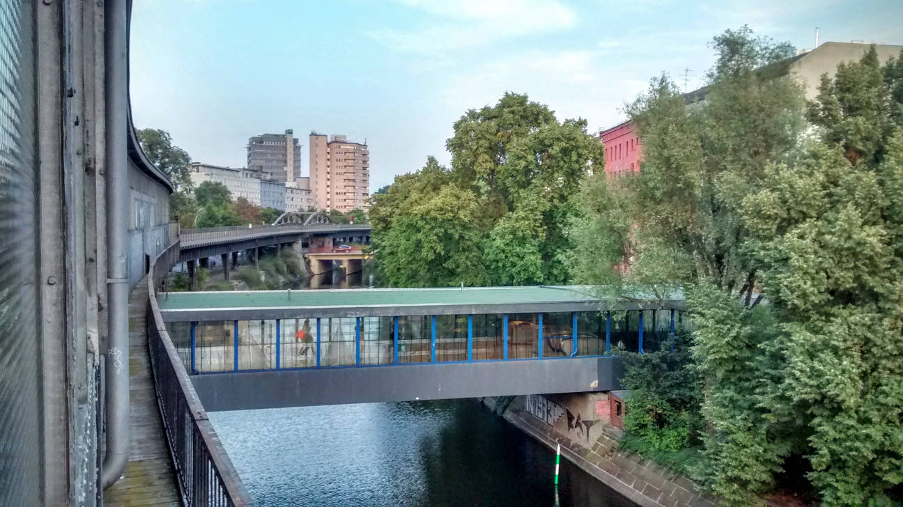 Glazed bridge over the Landwehrganal